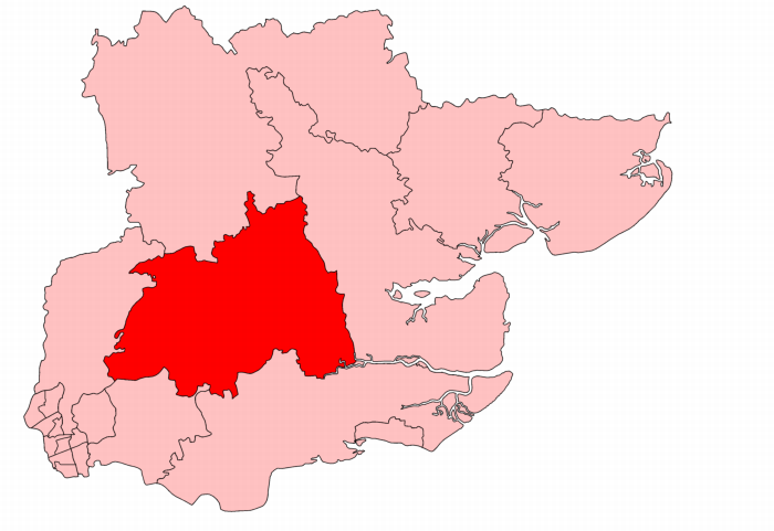 A map of Chelmsford constituency within Essex, as it existed from 1918 to 1945.